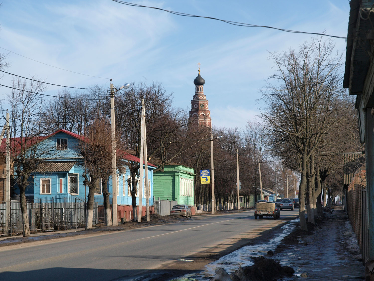 Sovetskaya Street, Bronnitsy, Moscow Oblast.